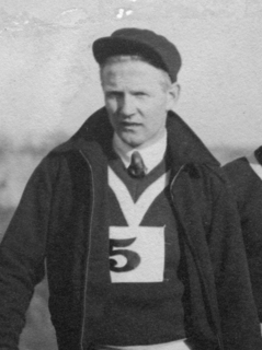 Norwegian ski jumpers at the 1932 Olympics in Lake Placid. Back from the left: Hans Kleppen, Hans Beck, Sverre Kolterud, Reidar Andersen. Front from the left: Birger Ruud, Kaare Wahlberg, Sigmund Ruud.